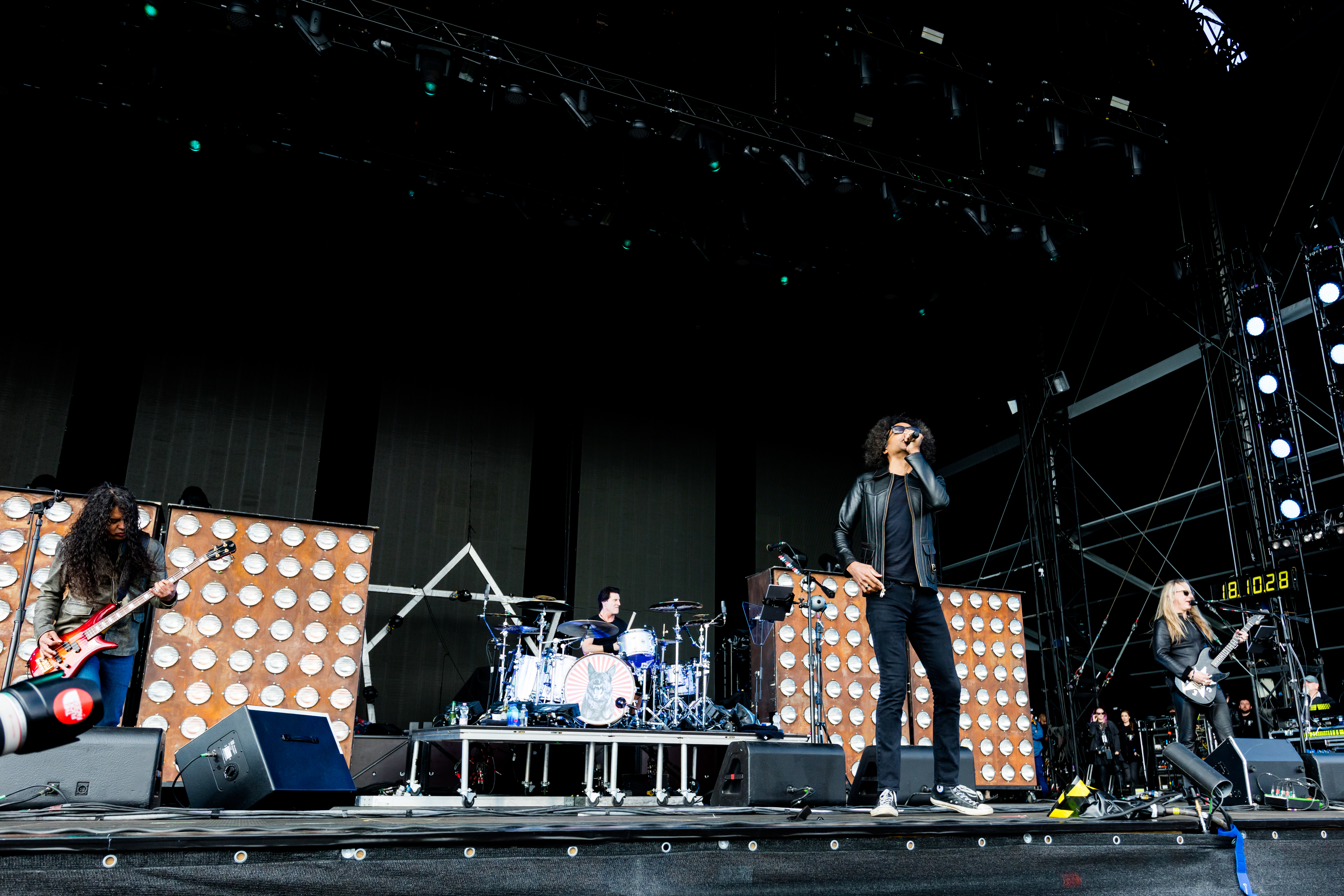 Alice in Chains during Rock am Ring ( at Nürburgring, Rheinland-Pfalz, Germany on 2019-06-07, Photo: Sven Mandel Promotion by Live Nation (